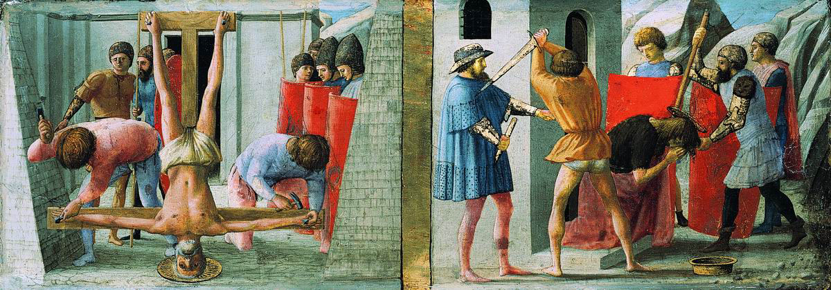 lest panel of the Predella from the Pisa Altarpiece